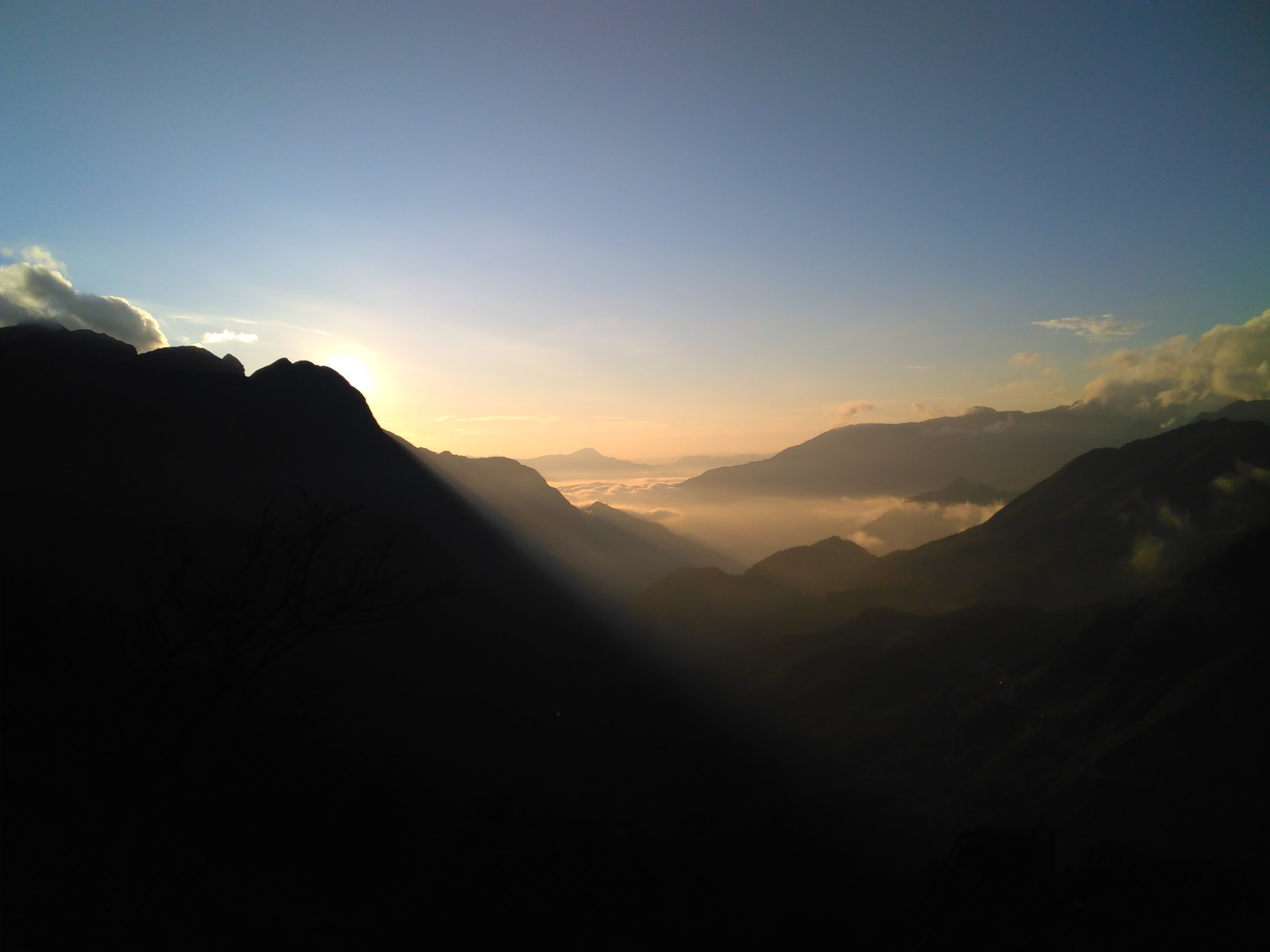 Hoang Lien Son